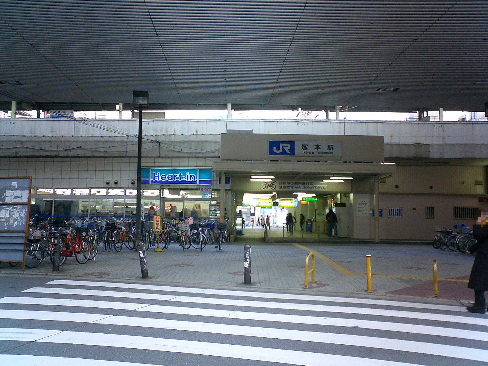 West Japan Railway Tōkaidō Main Line（JR Kōbe Line） Tsukamoto Station Building South Gate